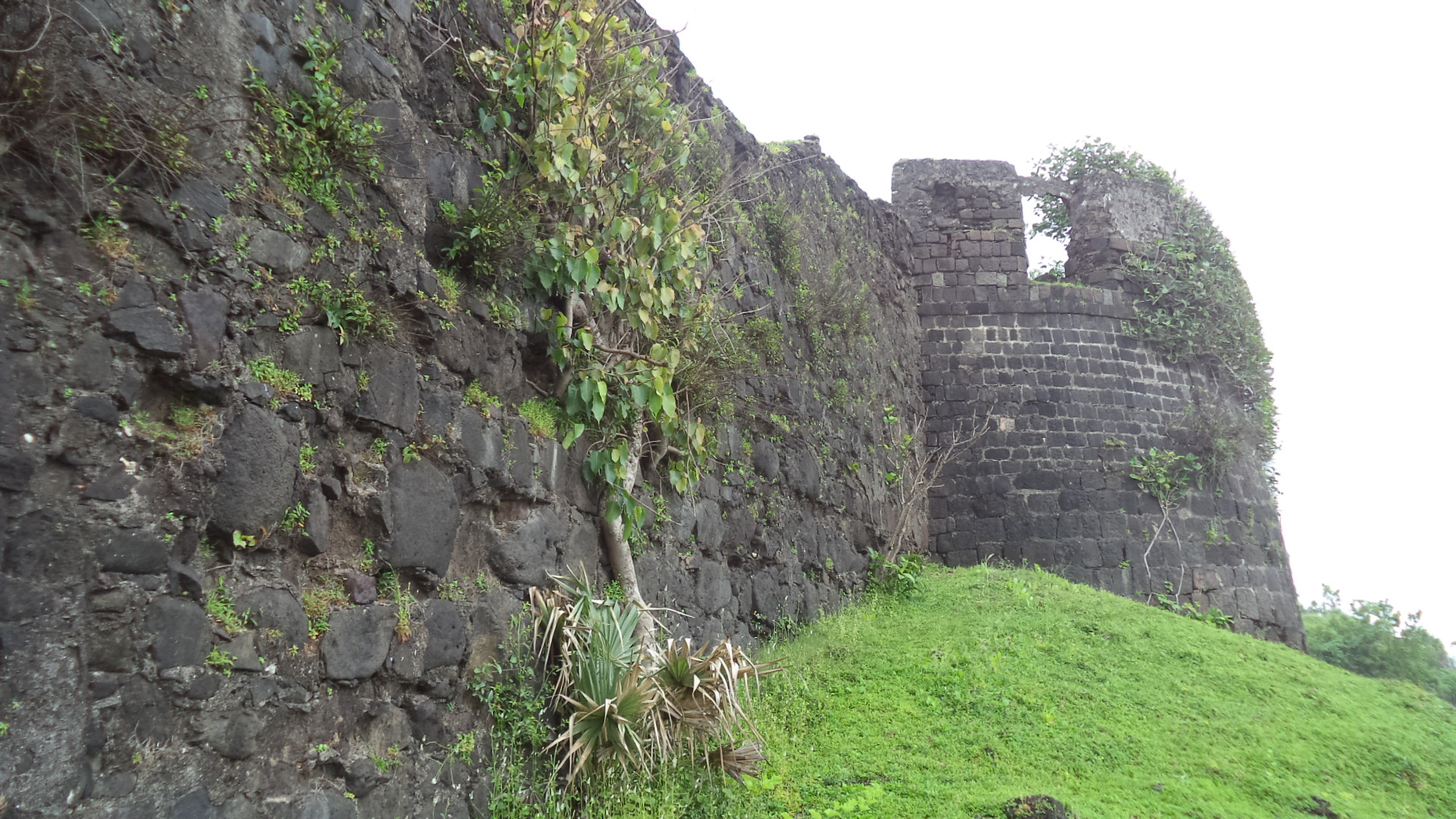 Fortification